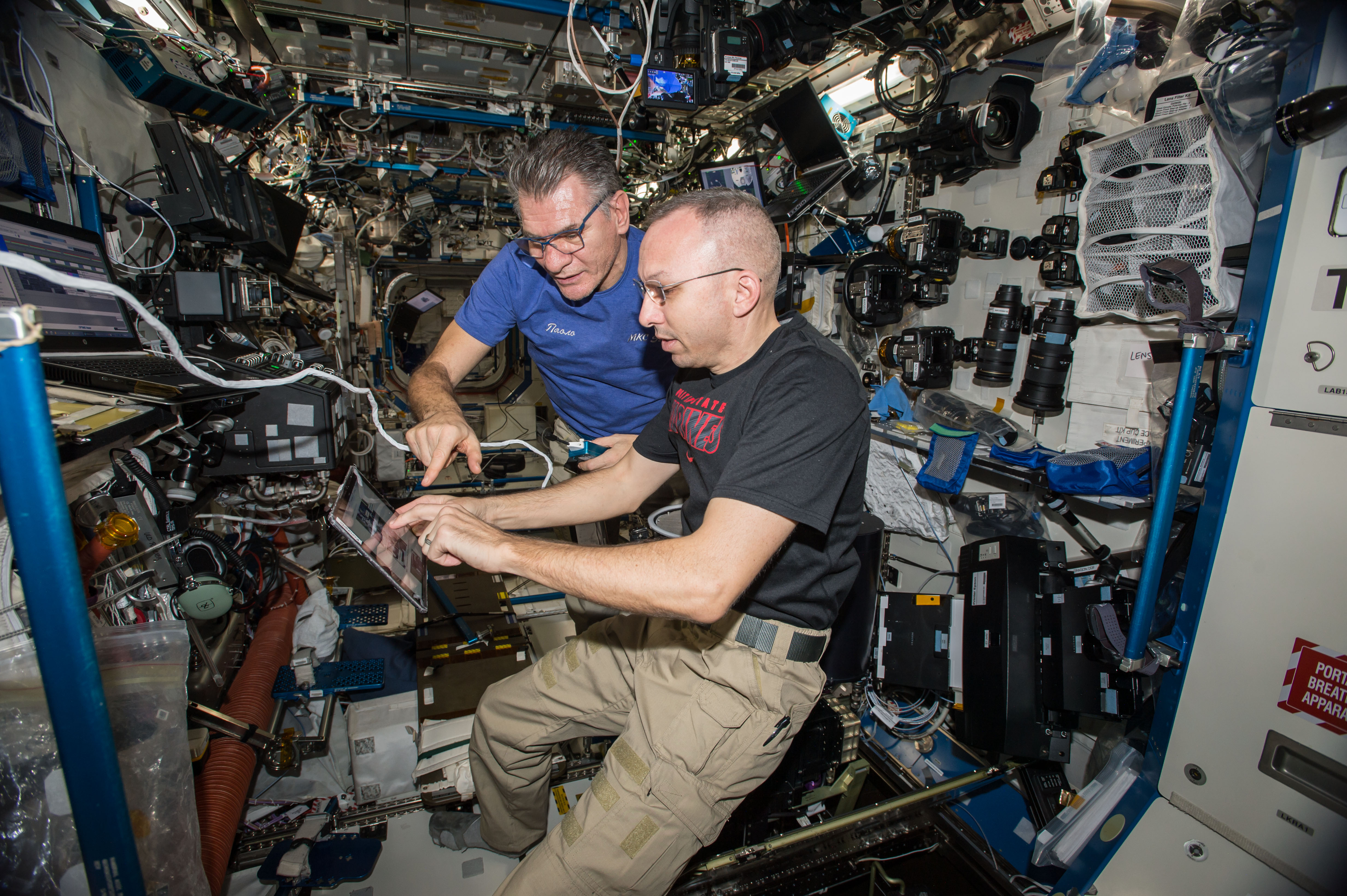 Expedition 53 Commander Randy Bresnik (foreground) and Flight Engineer Paolo Nespoli are at the controls of the robotics workstation in the Destiny laboratory module training for the approach, rendezvous and grapple of the Orbital ATK Cygnus resupply ship. He and Flight Engineer Paolo Nespoli were in the cupola operating the Canadarm2 robotic arm to grapple Cygnus when it arrived Nov. 14, 2017, delivering nearly 7,400 pounds of crew supplies science experiments, computer gear, vehicle equipment and spacewalk hardware.